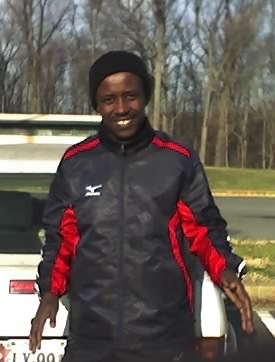 Gezahegn Abera, ethiopian olympic champion